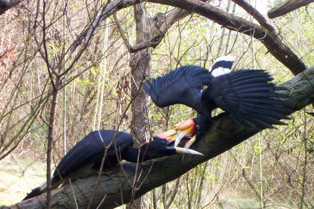 Rhinoceros Hornbill Buceros rhinoceros at Nashville Zoo at Grassmere, Nashville, TN, USA.